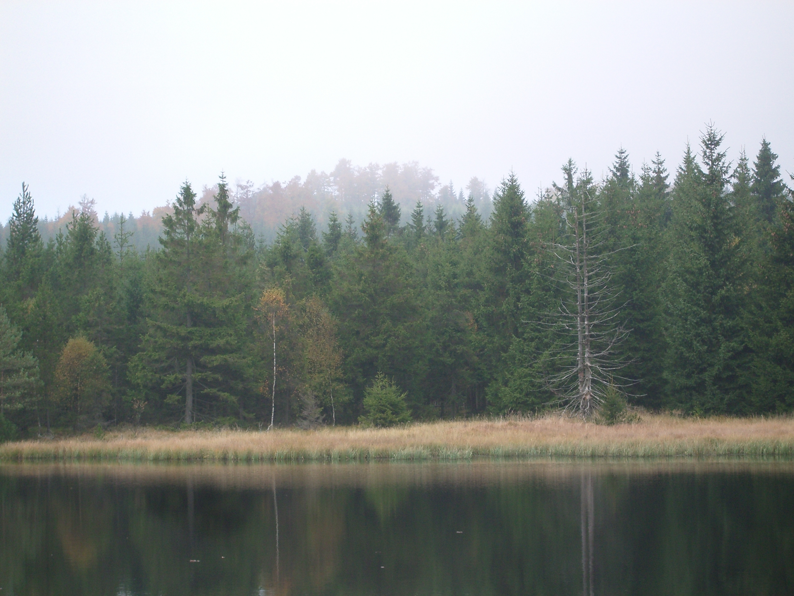 Steinhübel (Erzgebirge)